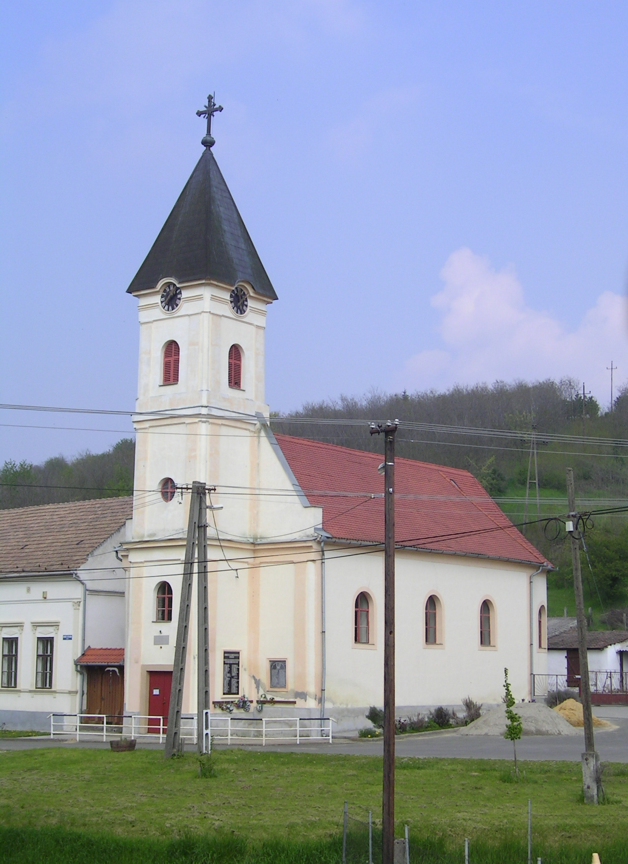 Roman catholic church in Liptód, Hungary